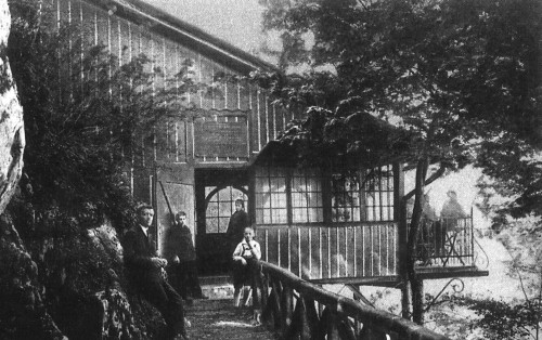 1906 photograph. From Földtani közlöny, Volume 43. Magyarhoni földtani társulat, 1913.